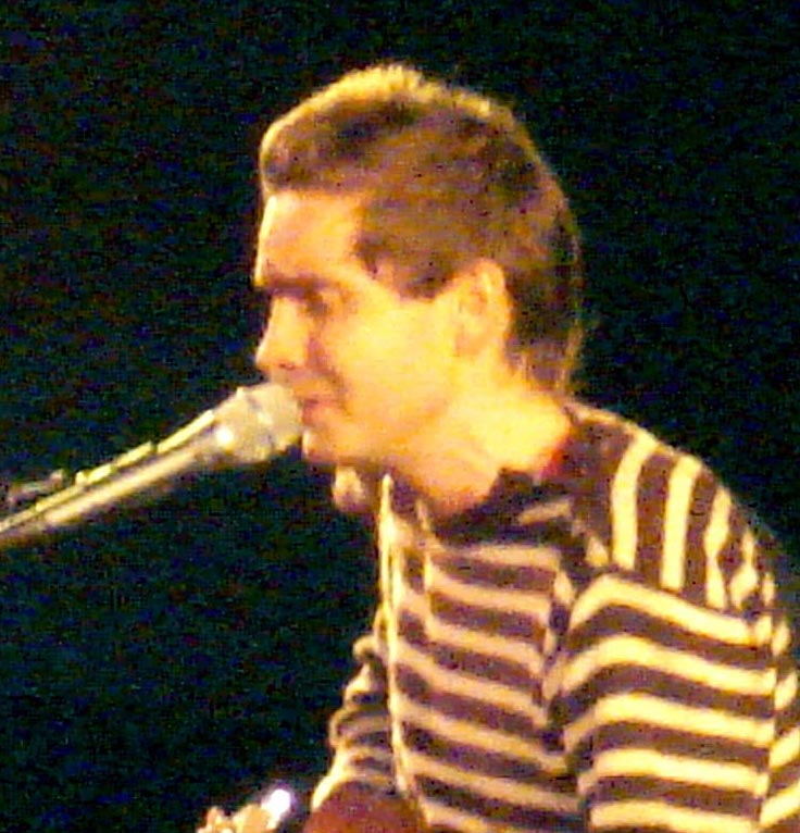 Sigur Rós member Jón Þór Birgisson